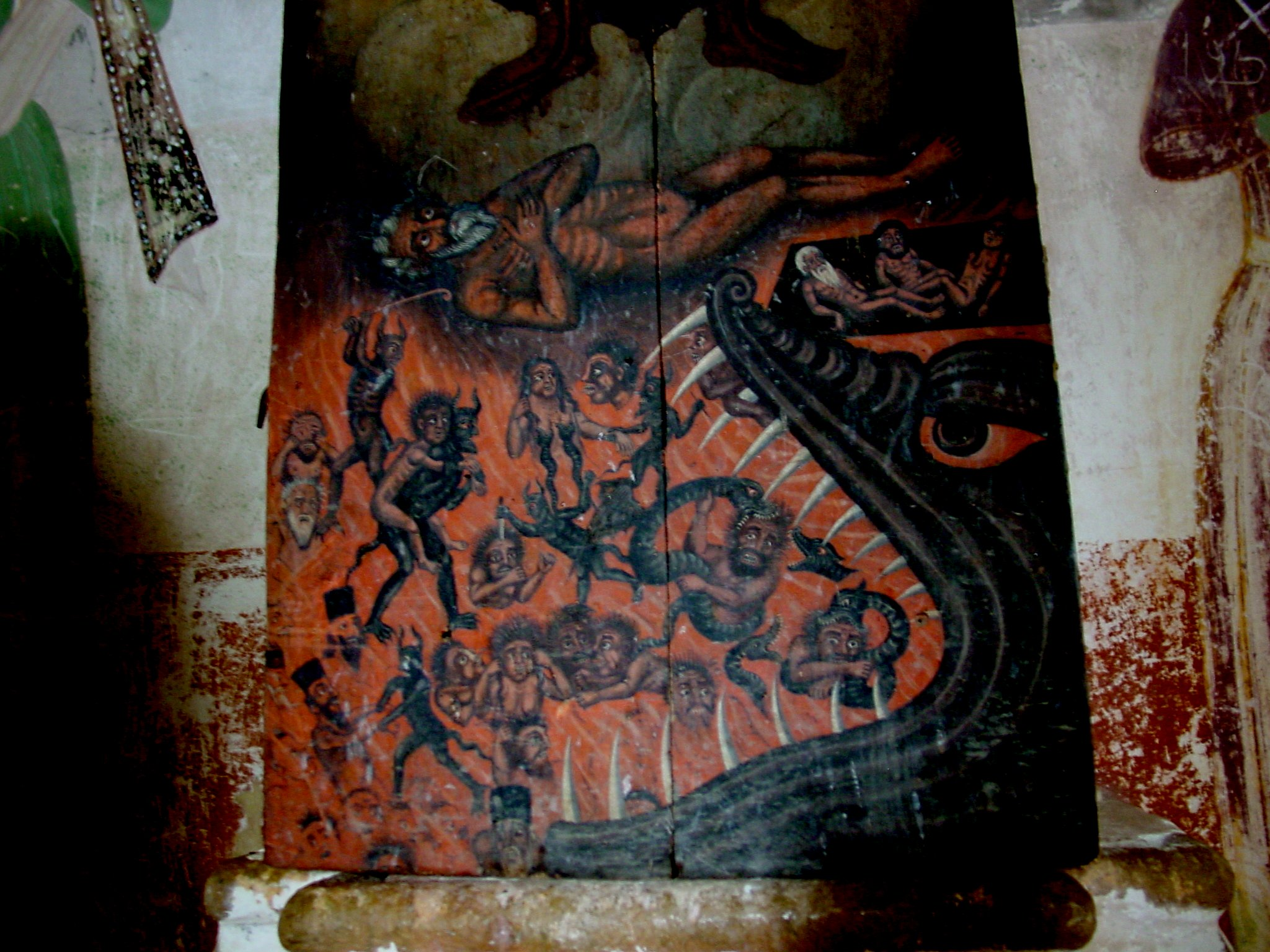 Loose icon in Gelati monastery shows somewhat unusual picture of hell.